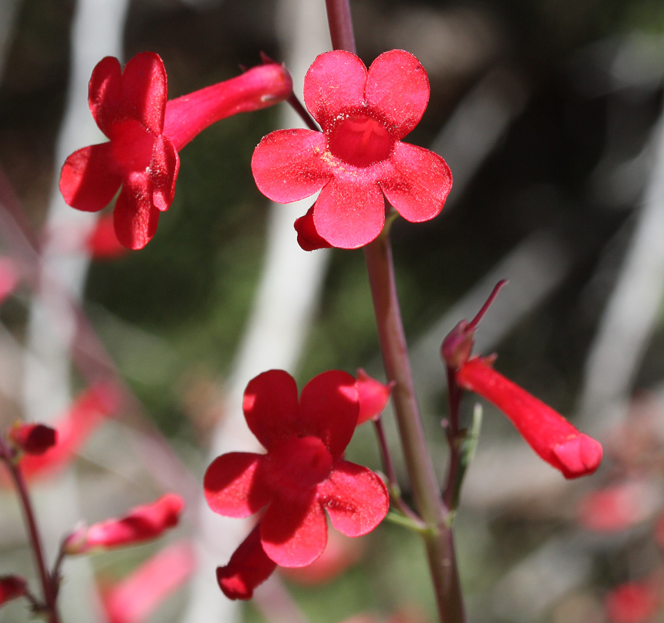 Utah Penstemon (Penstemon utahensis) Flower, Zion National Park, April 2016